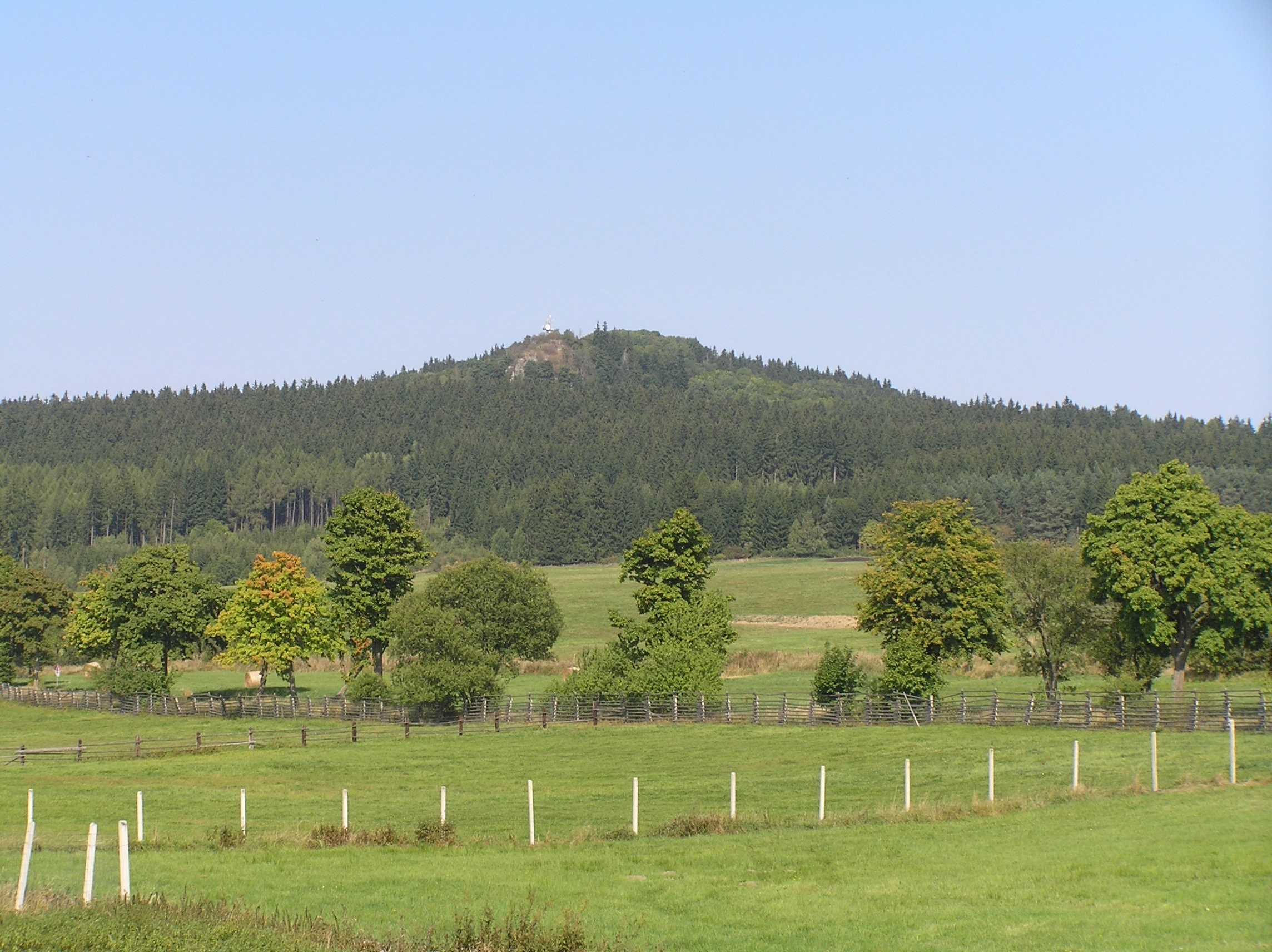 Podhorn